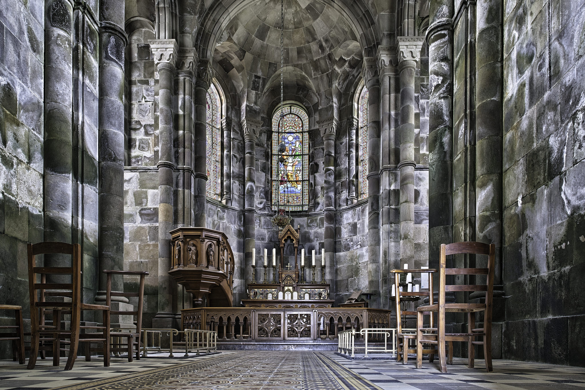 Interior of the funerary chapel at Lagoa das Furnas.